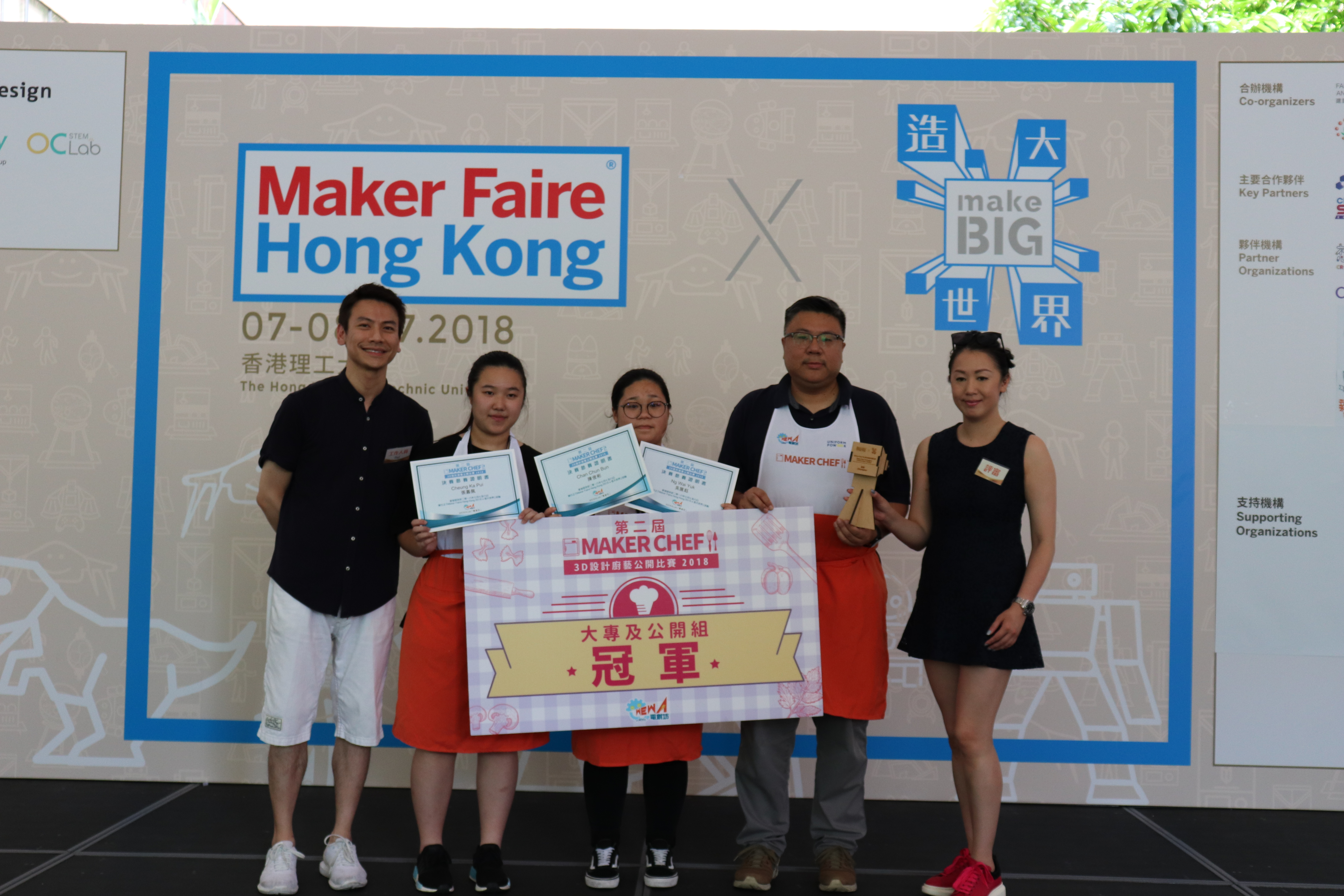 3d printing cookies winners